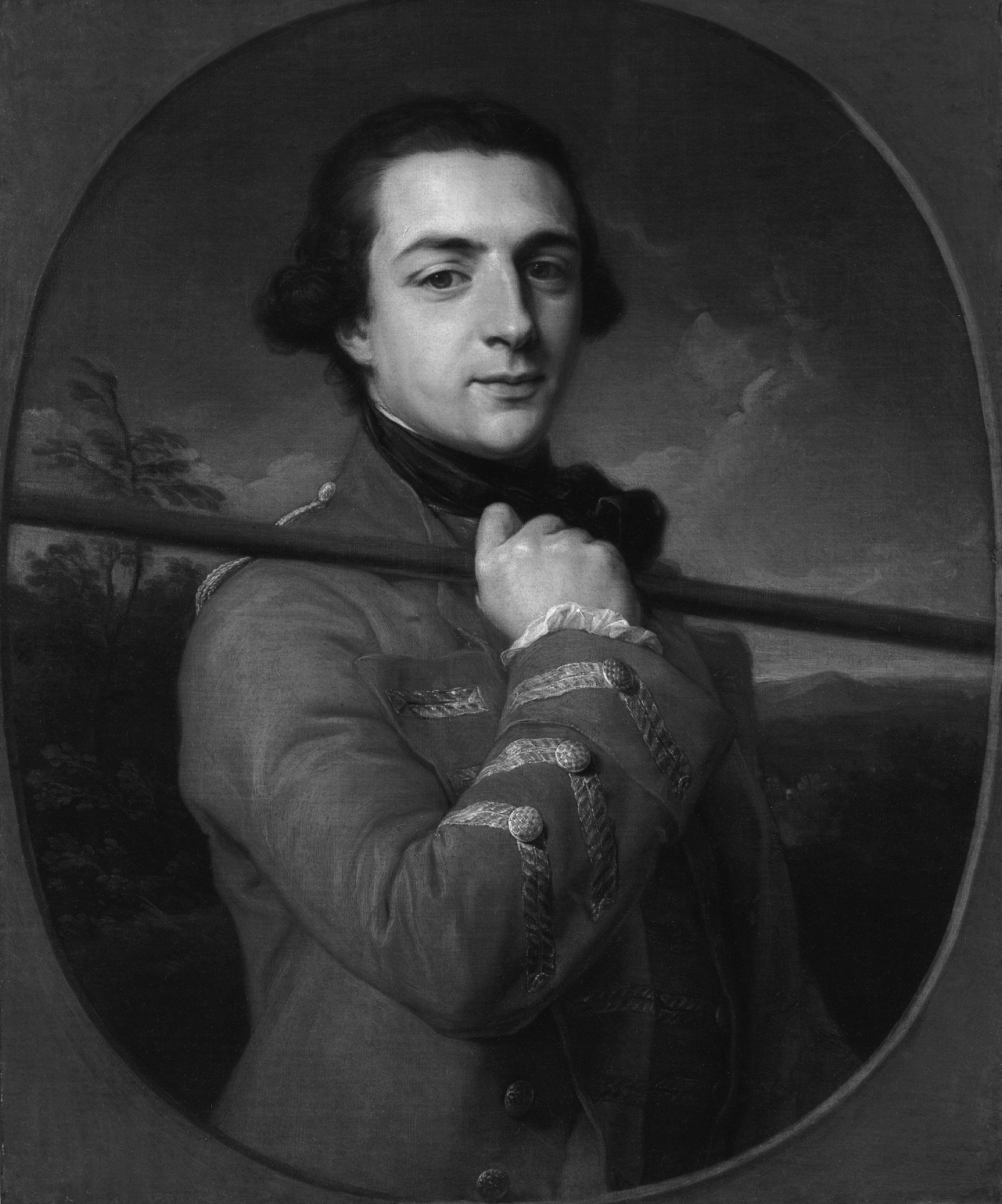 Augustus Henry Fitzroy, 3rd Duke of Grafton, by Pompeo Batoni (died 1787). All images in this batch have been confirmed as author died before 1939 according to the official death date listed by the NPG.